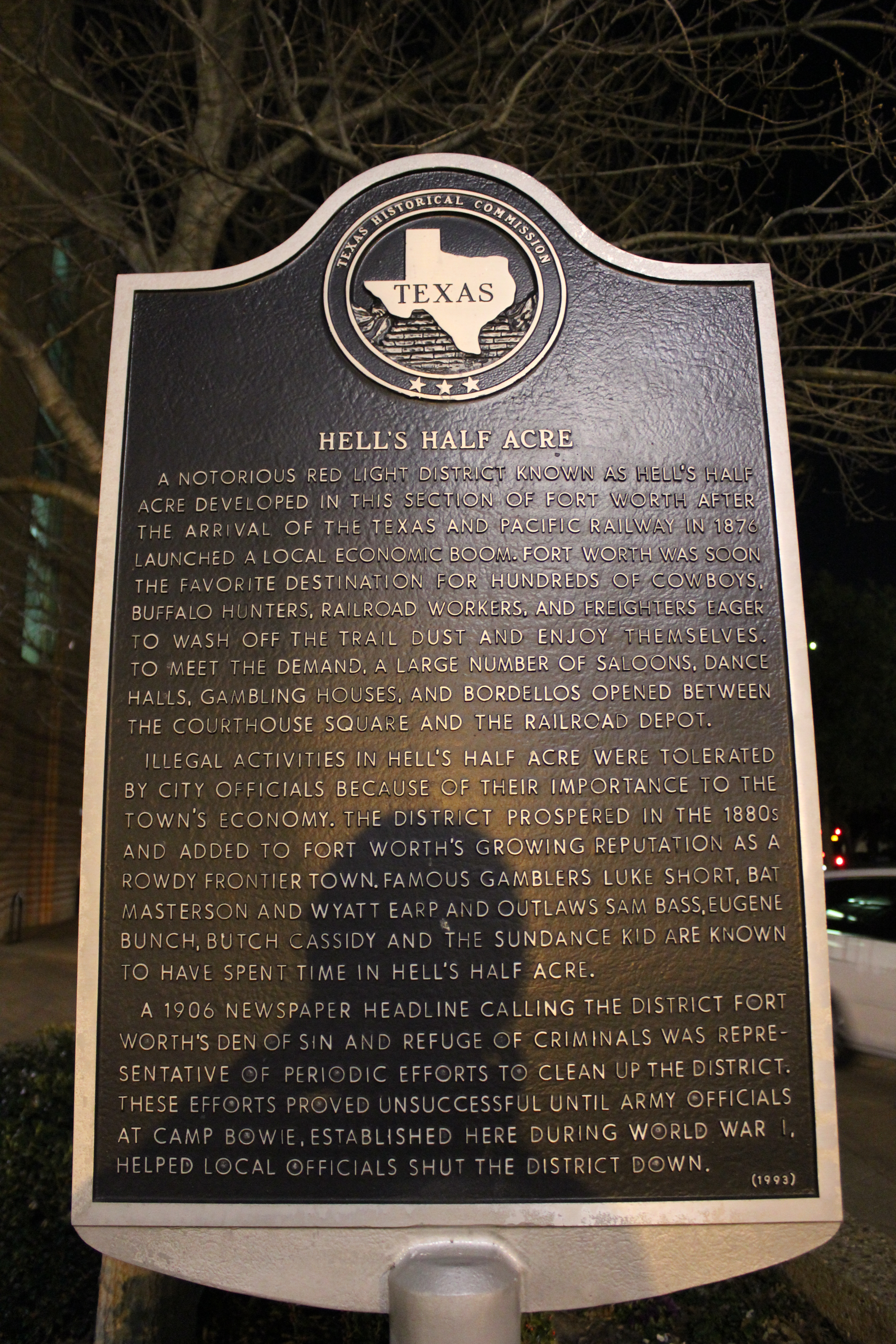 A notorious red light district known as Hell's Half Acre developed in this section of Fort Worth after the arrival of the Texas and Pacific Railway in 1876 launched a local economic boom. Fort Worth was soon the favorite destination for hundreds of cowboys, buffalo hunters, railroad workers, and freighters eager to wash off the trail dust and enjoy themselves. To meet the demand, a large number of saloons, dance halls, gambling houses, and bordellos opened between the Courthouse Square and the railroad depot. Illegal activities in Hell's Half Acre were tolerated by city officials because of their importance to the town's economy. The district prospered in the 1880s and added to Fort Worth's growing reputation as a rowdy frontier town. Famous gamblers Luke Short, Bat Masterson and Wyatt Earp and outlaws Sam Bass, Eugene Bunch, Butch Cassidy and the Sundance Kid are known to have spent time in Hell's Half Acre. A 1906 newspaper headline calling the district Fort Worth's den of sin and refuge of criminals was representative of periodic efforts to clean up the district. These efforts proved unsuccessful until Army officials at Camp Bowie, established here during World War I, helped local officials shut the district down. (1993)